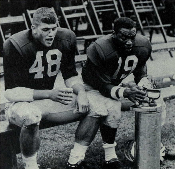 Photograph of Jim Detwiler and Carl Ward on the sidelines at Michigan Stadium during the 1964 Michigan-Northwestern game